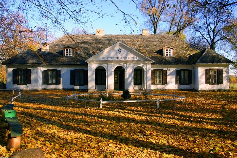 Sucha Palace in Poland